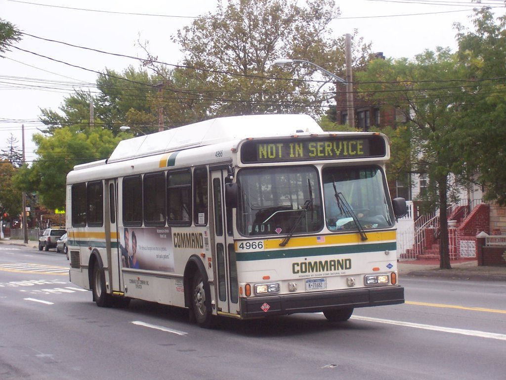 Command Bus Company #4966 deadheads through Canarsie, Brooklyn.